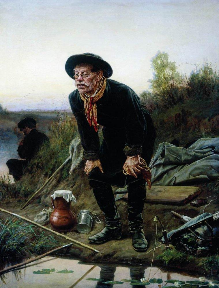 Painting of an elegant man clad in black who is out fishing. In this picture, he is peering into the water.